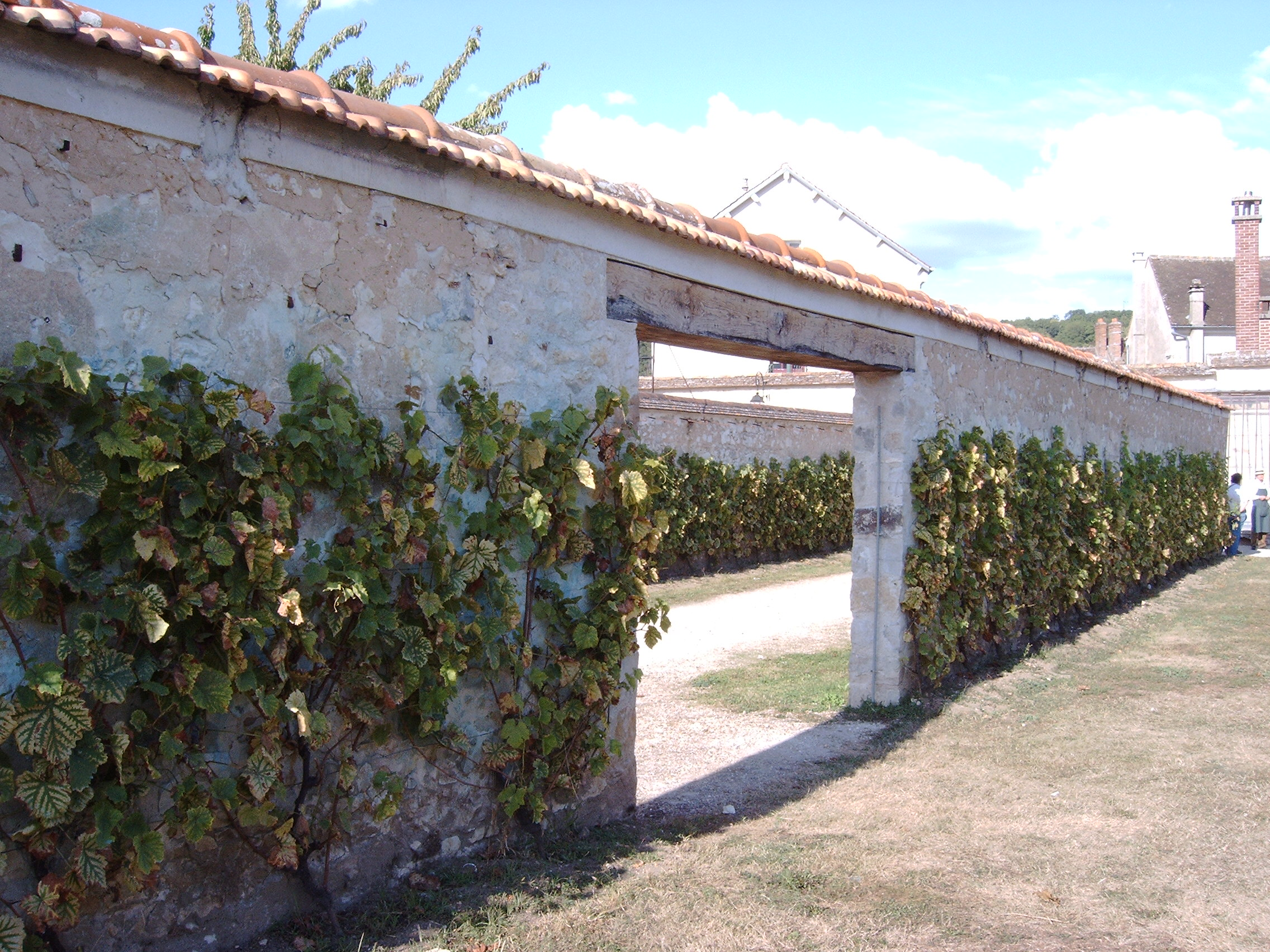 Salomon vineyard in Thomery, Seine-et-Marne, France